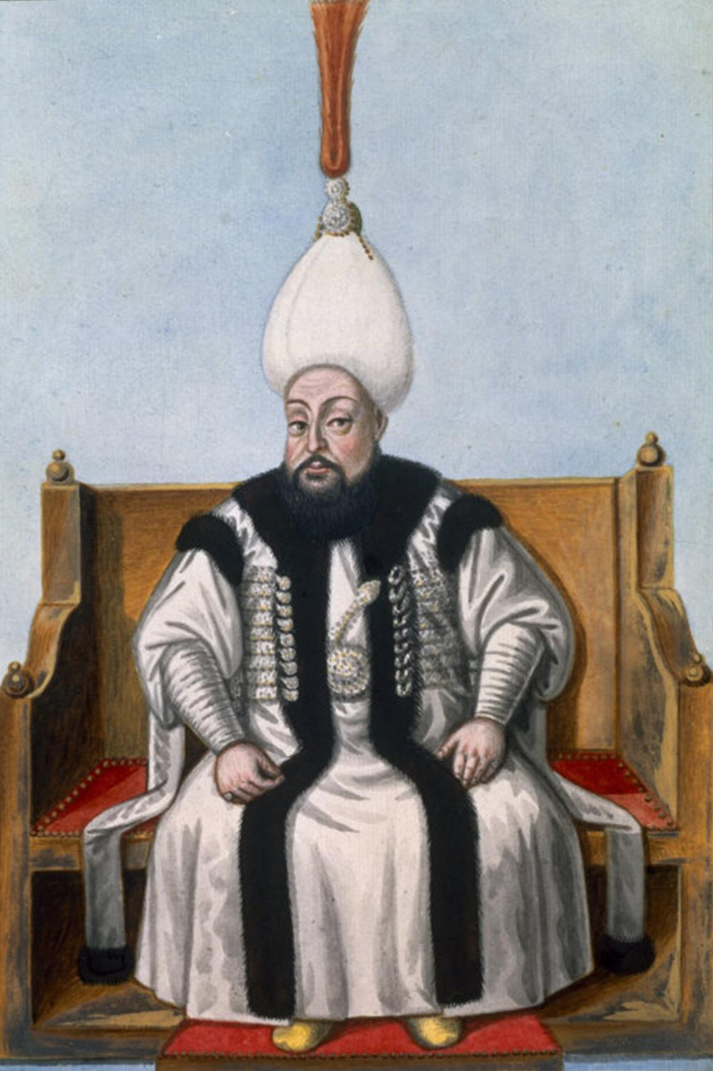 Portrait of Mustafa III, Sultan of the Ottoman Empire (1757-1774). The portrait has been printed using the Giclée process.